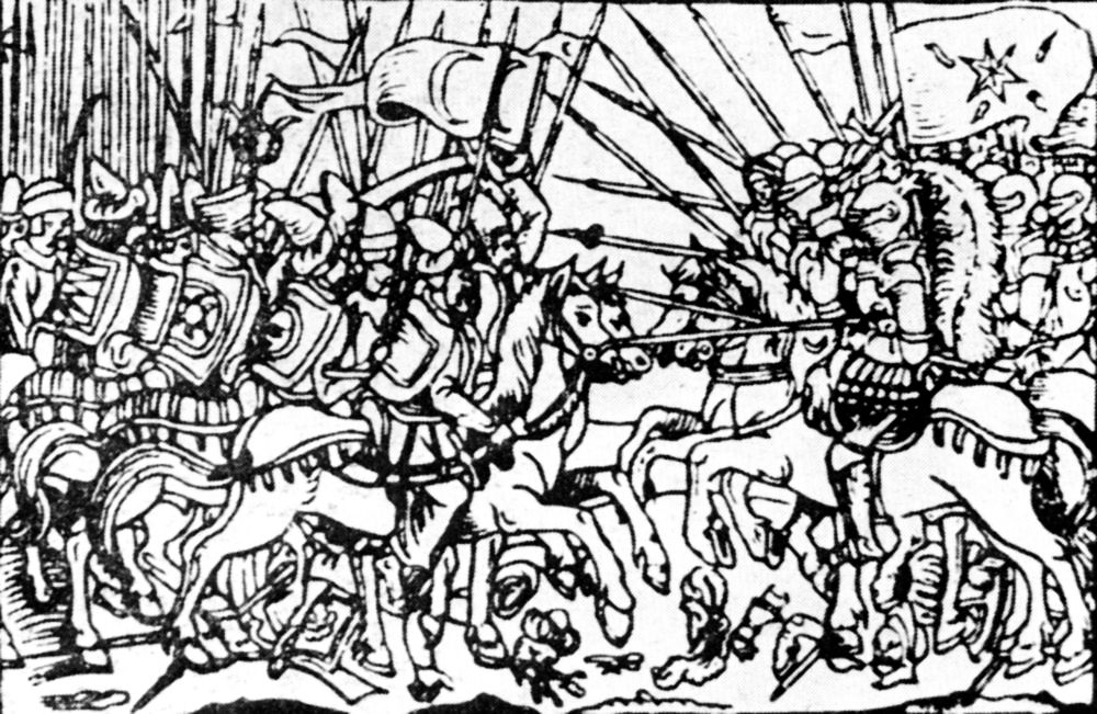 Battle of Nicopolis, 1396